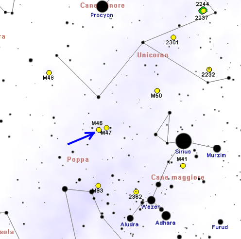 M46